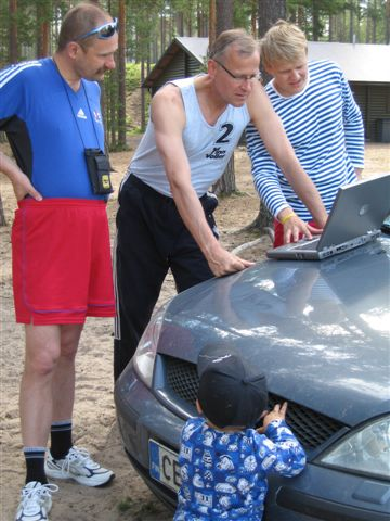 Jouni Parkkali with his son Jesse Parkkali